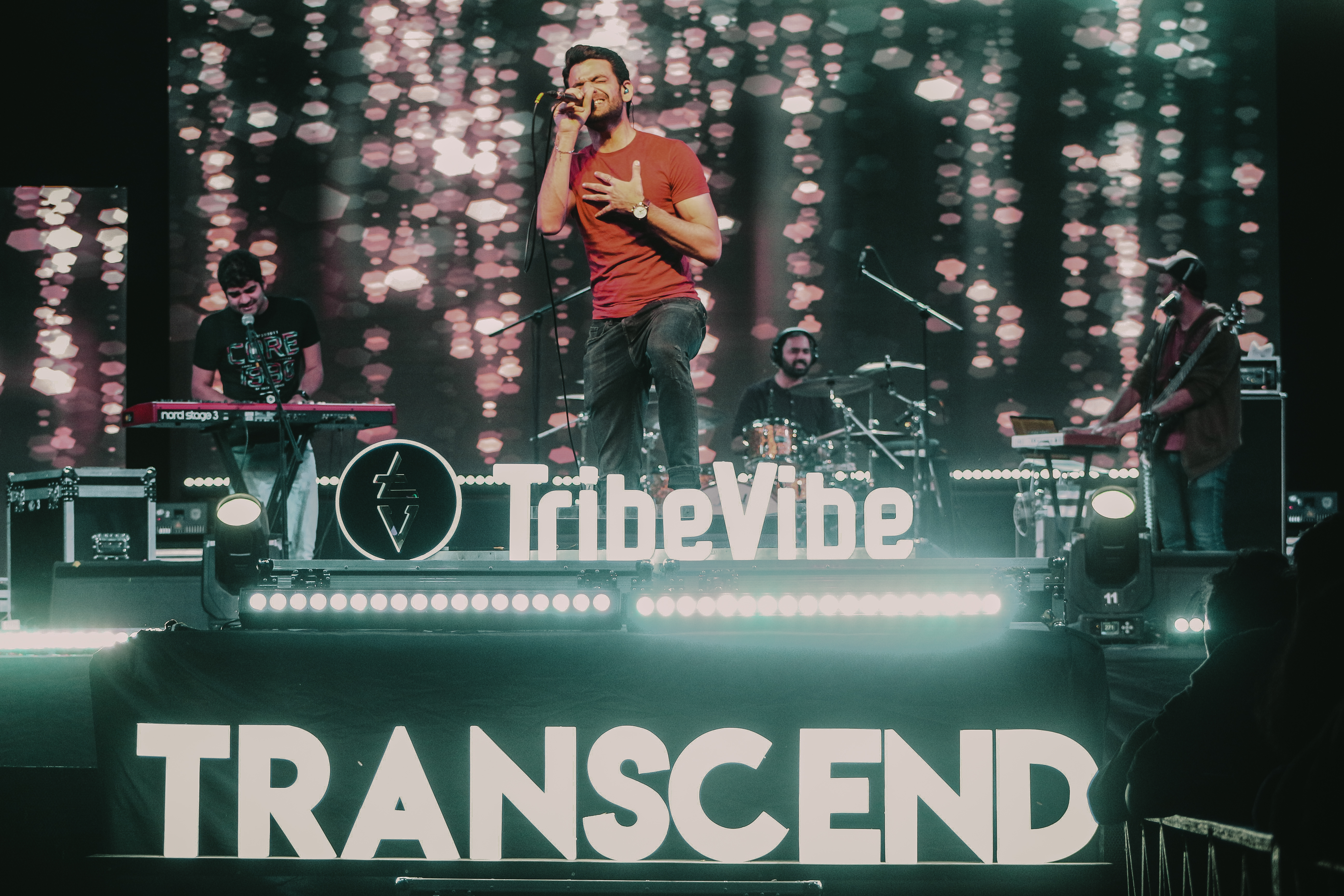 Famous Band The Yellow Diary at Transcend 2020, Cultural Festival of SIBM Pune